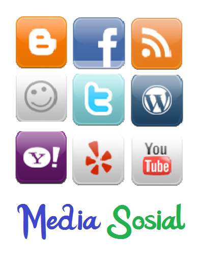 Media Sosial